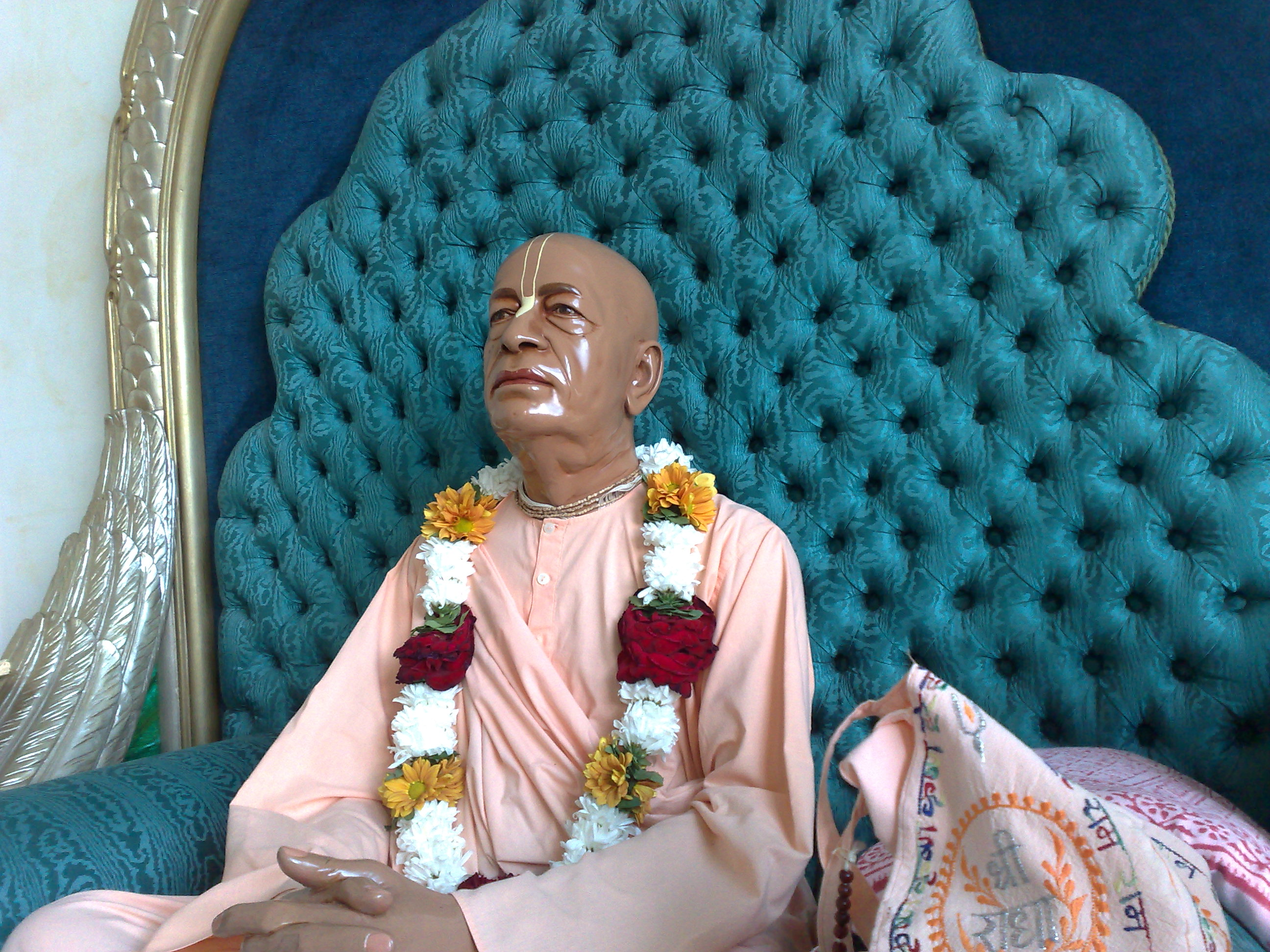 Prabhupada desh, Hare Krishna temple in Vicenza: Srila Prabhupada Statue (detail)